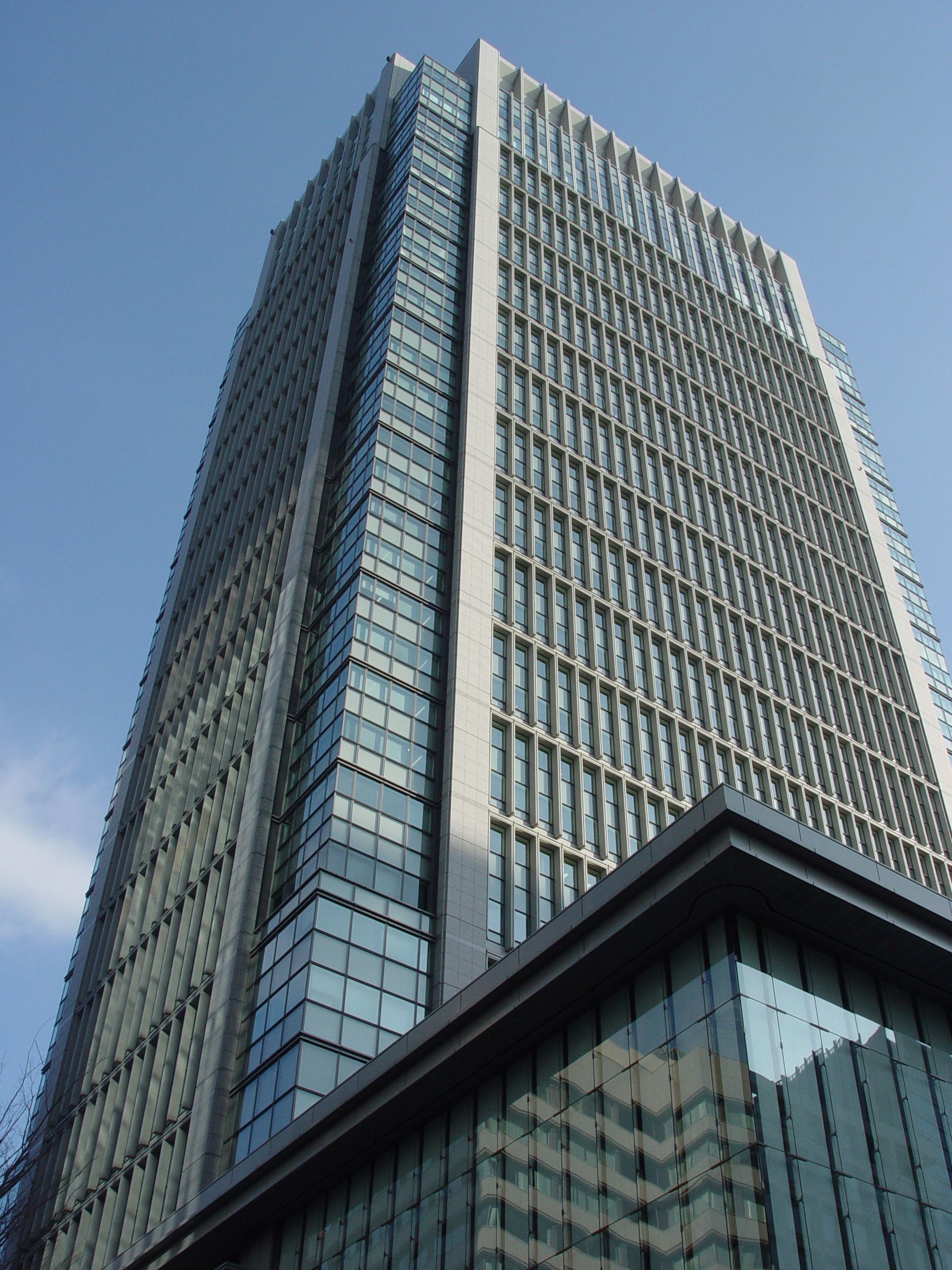 Public office building of Japan: The Ministry of Education, Culture, Sports, Science and Technology Agency for Cultural Affairs Japanese National Commision for UNESCO National institute of Science and Technology Policy National educational policy laboratory 庁舎： 文部科学省 文化庁 日本ユネスコ国内委員会 科学技術政策研究所 国立教育政策研究所